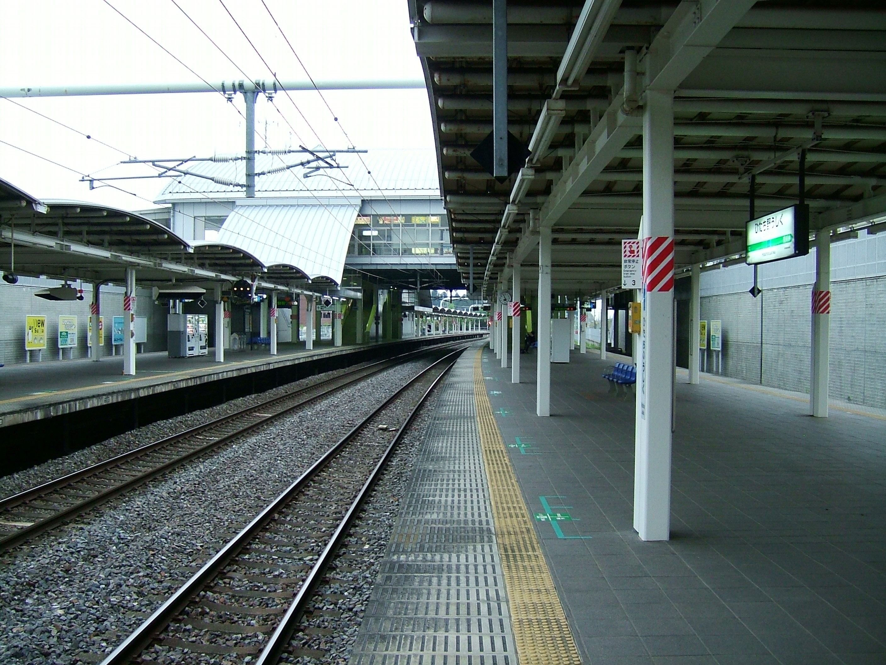 The platforms of Hitachino-Ushiku Station, East Japan Railway Jōban Line